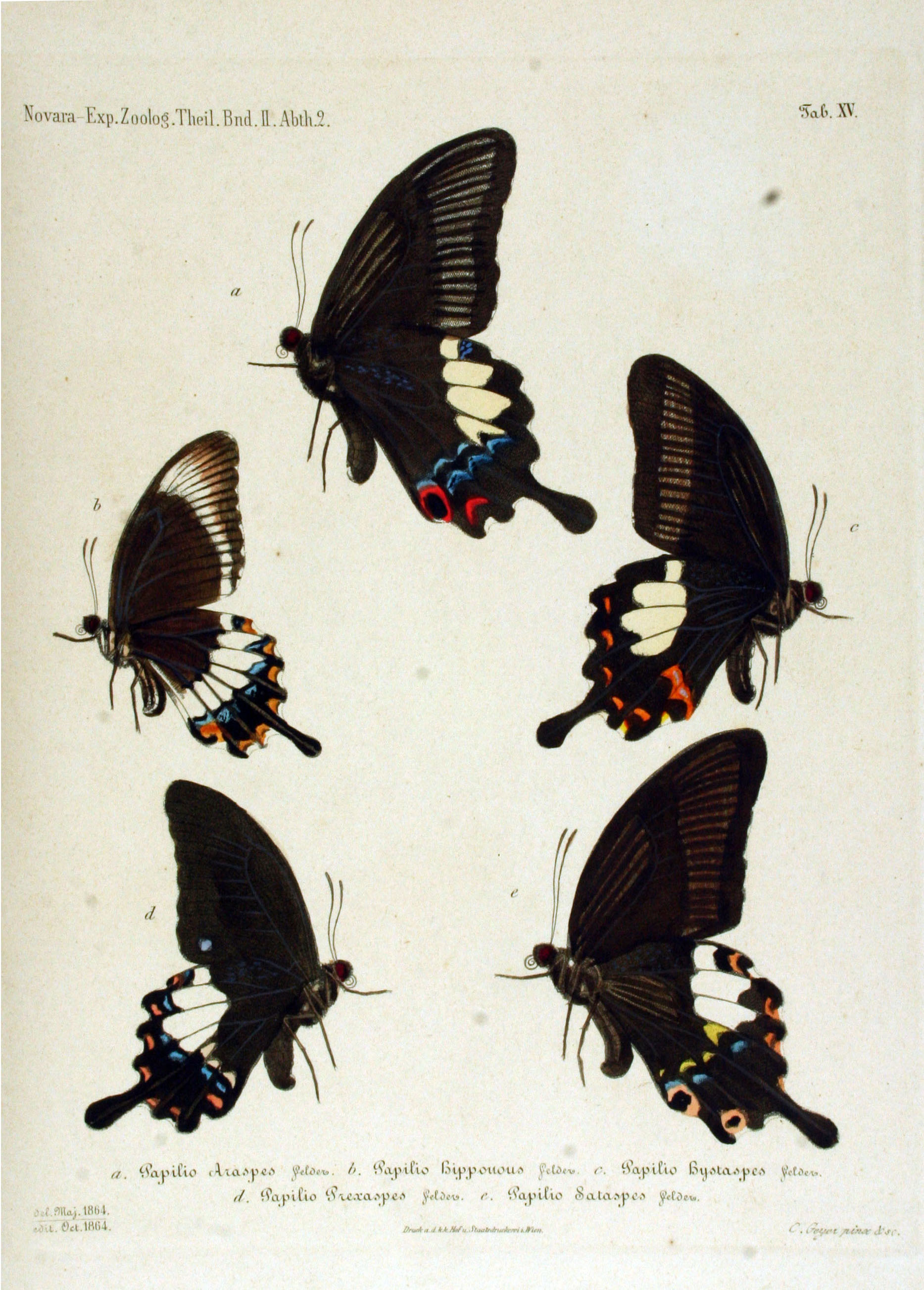 Reise der Österreichischen Fregatte Novara um die Erde in den Jahren 1857, 1858, 1859 unter den Befehlen des Commodore B. von Wüllerstorf-Urbair. (1864) Zoologischer Theil. 2. Band. Zweite Abteilung: Lepidoptera. Atlas.Tafel XV Papilio araspes (Papilio iswara araspes C. & R. Felder, 1859); Papilio hipponous; Papilio hystaspes; Papilio prexaspes; Papilio sataspes